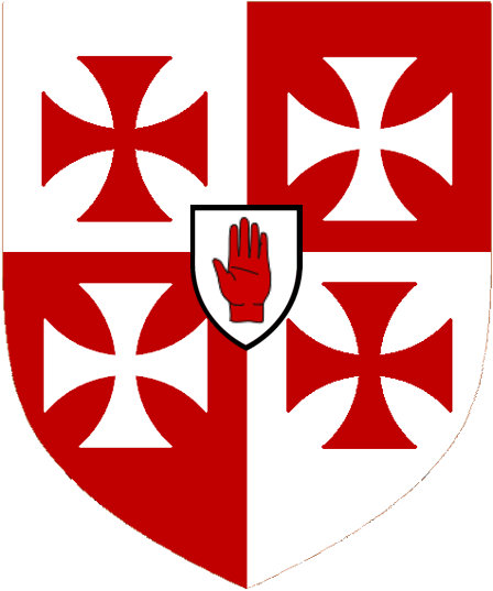 Shield of arms of The Lord Chetwode